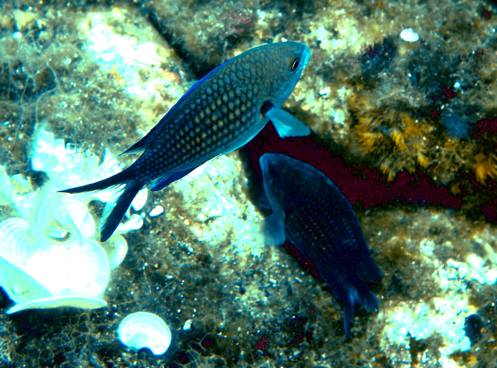 Chromis chromis